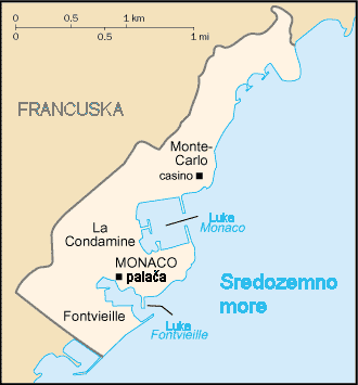 Map of Monaco, Croatian Translation; Modified version of Image:Monaco-CIA WFB Map.png